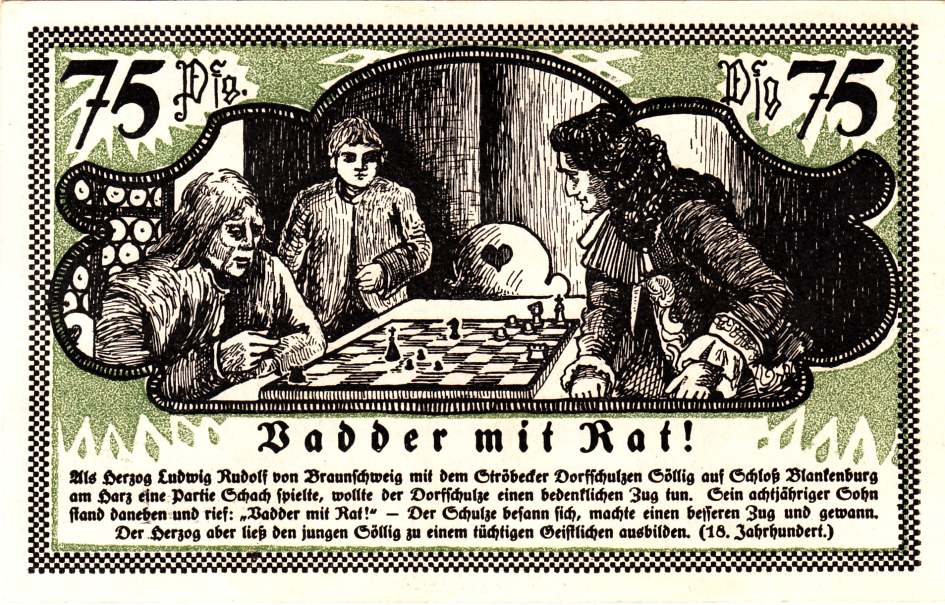 Notgeld - Ströbeck, 75 Pfennig, 1921, emergency money with chess motives